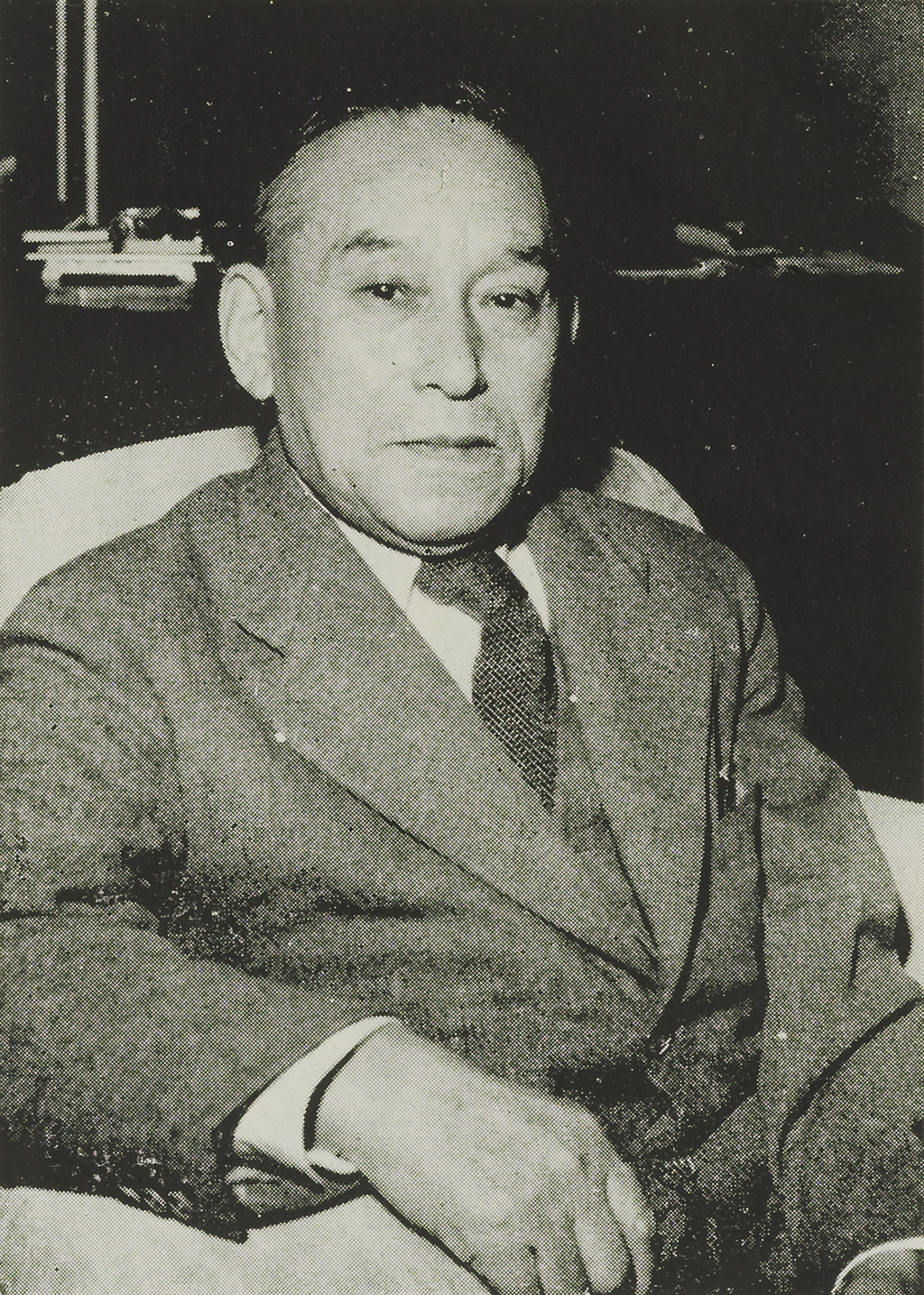 Portrait of Murata Shozo (村田省蔵, 1878 – 1957)